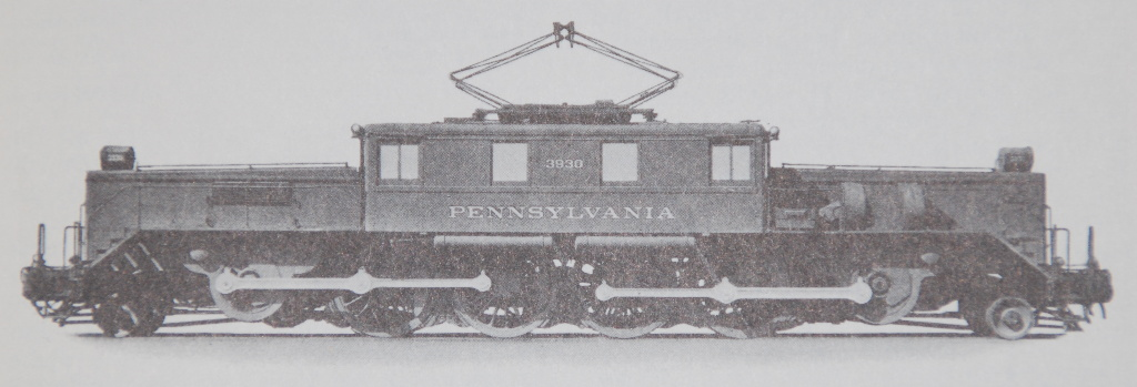 PRR L5 electric locomotive Pennsylvania Railroad's class L5